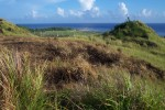 Grasslands in central Guam. Category:Images of Guam